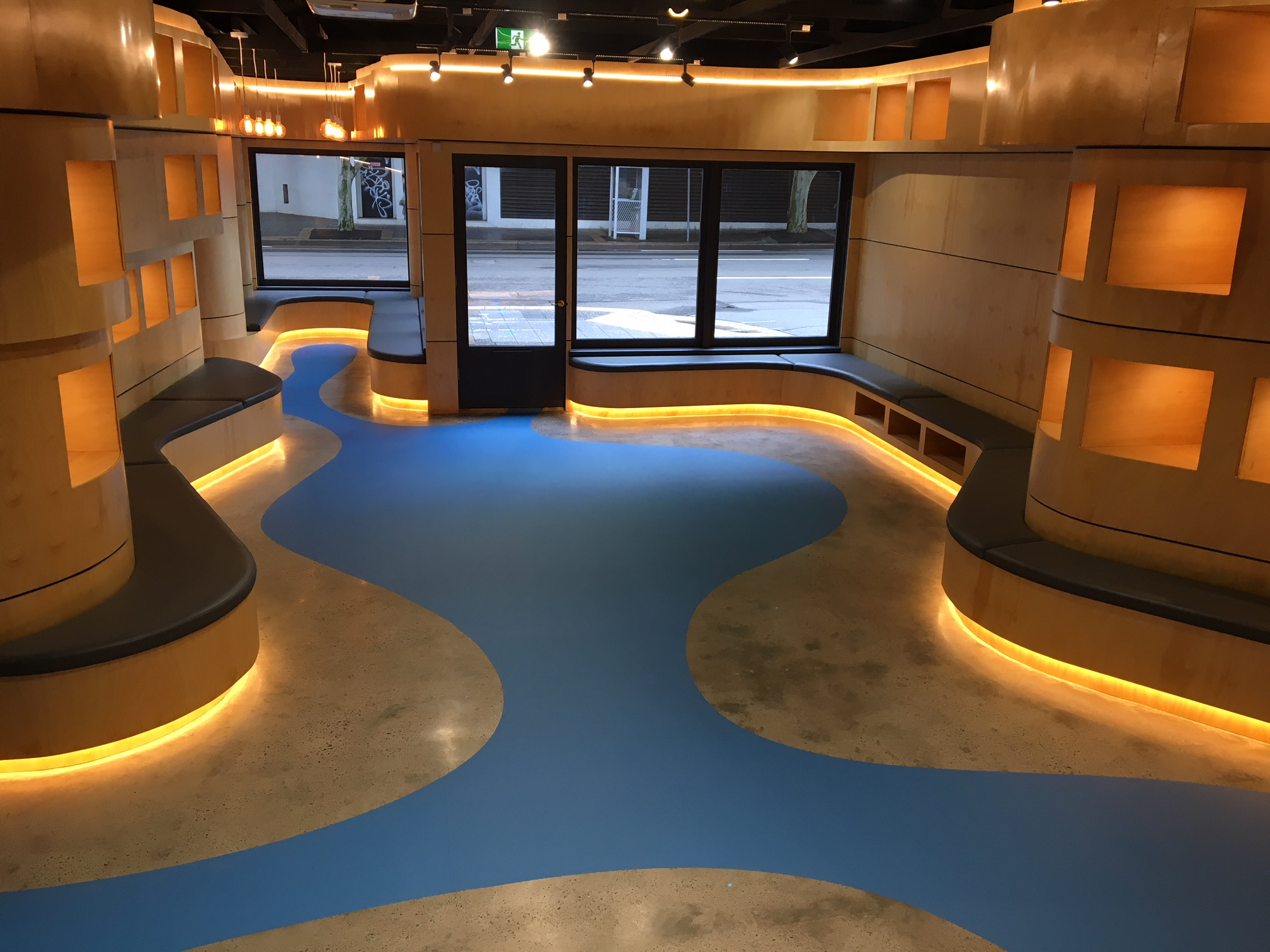 Workshop space for students at Parramatta location of Story Factory.